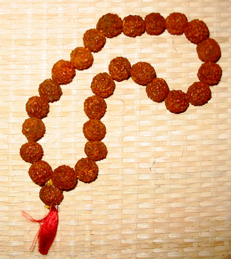 Prayer beads made of rudraksha